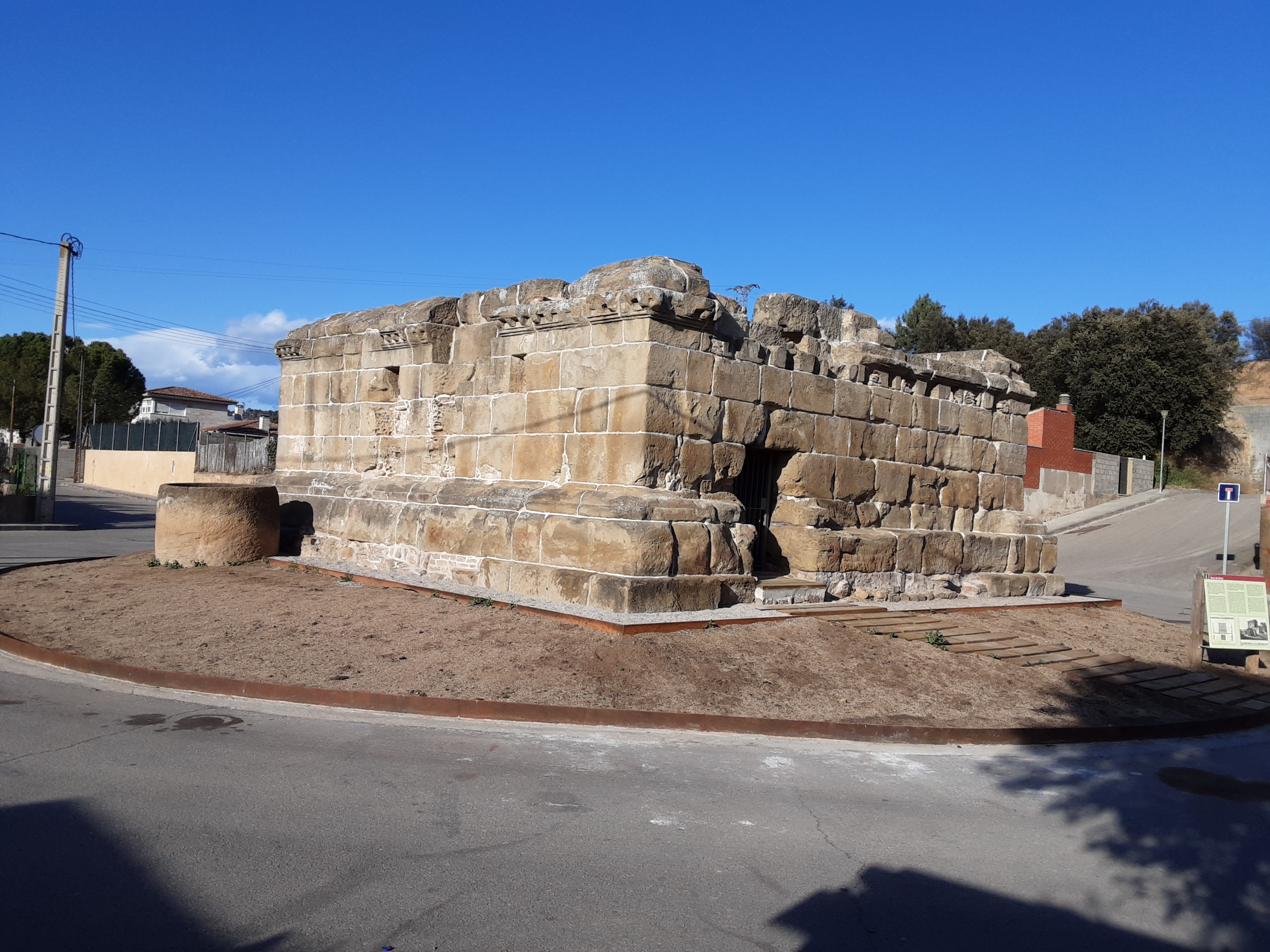 The remains of the Roman sepulchre Torre del Breny, from century III bC, in Castellgalí, Catalonia (2020).